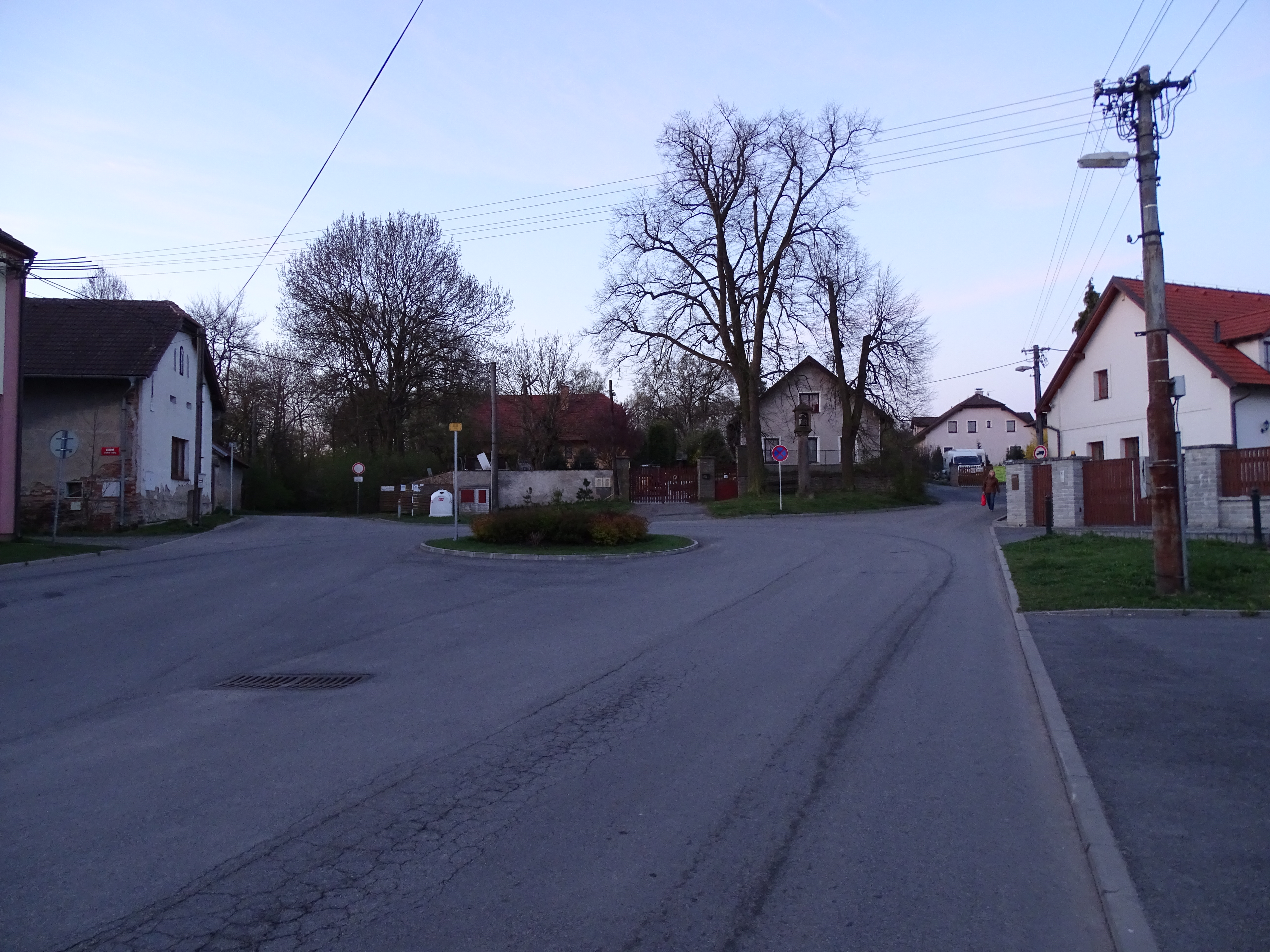 Jesenice-Osnice, Prague-West District, Central Bohemian Region, Czech Republic. Na Návsi.